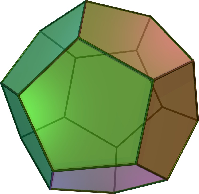 A Dodecahedron; a regular polyhedron. Text from Dodecahedron, made by me using POV-Ray, see User:Cyp/Poly.pov for source.